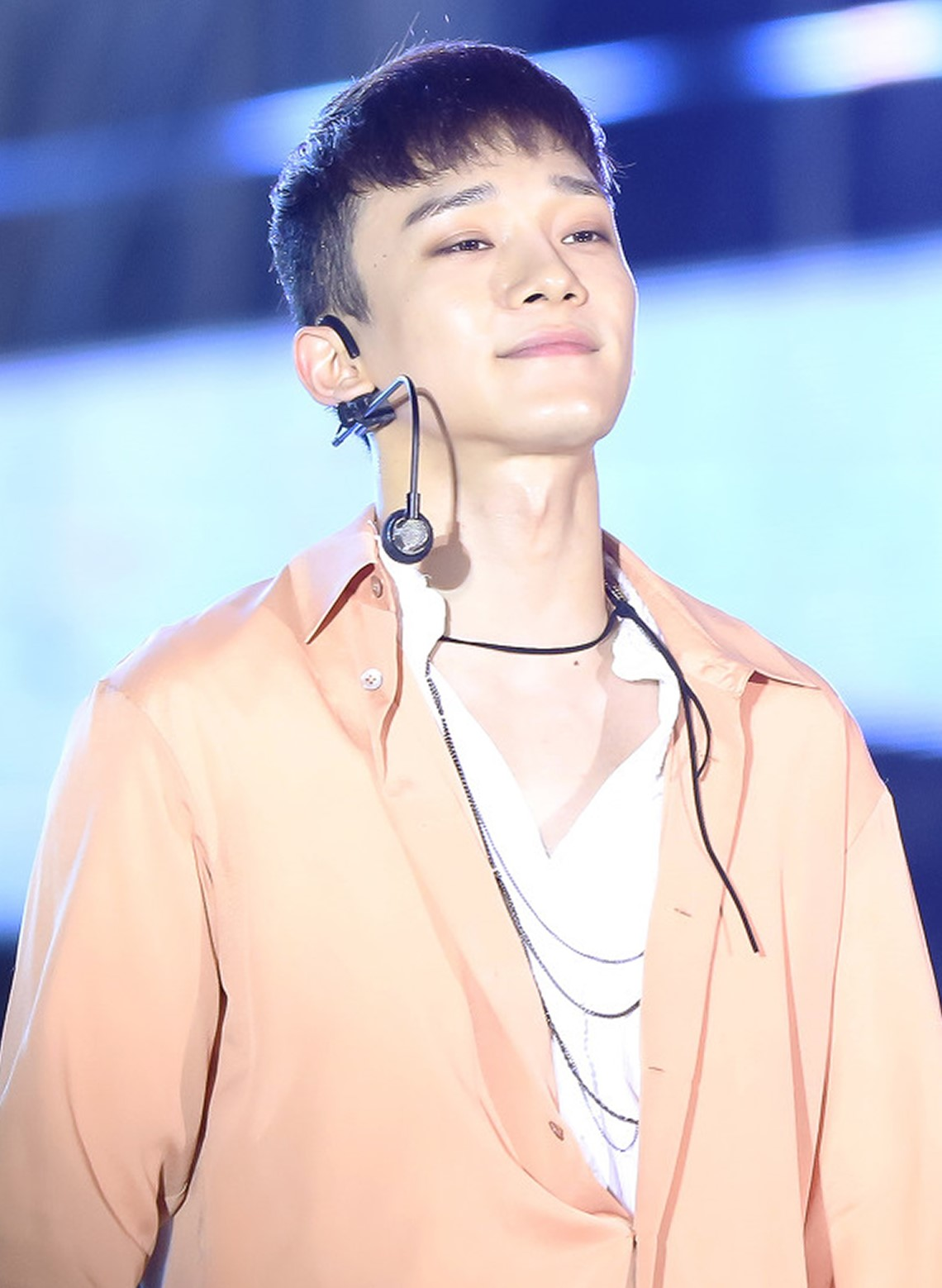 Chen at Lotte Family Festival on October 22, 2016.